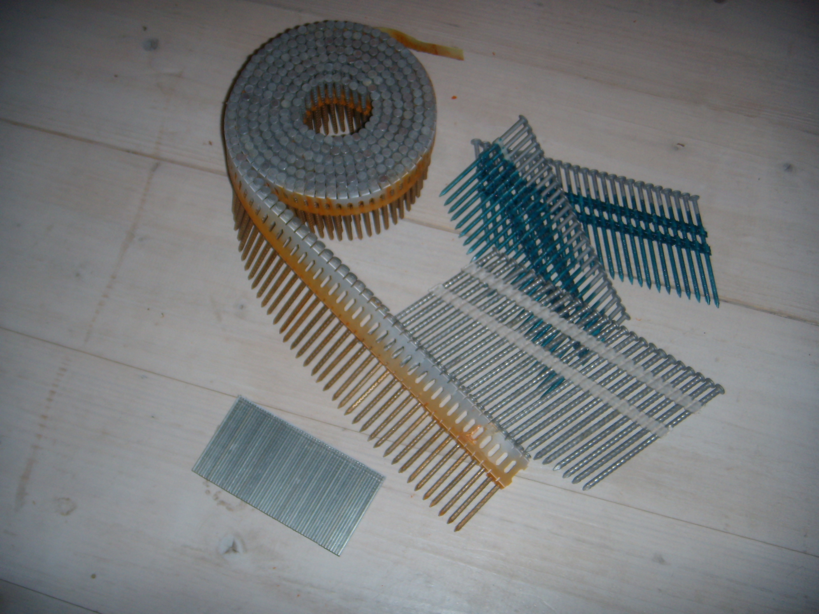 Metal nails